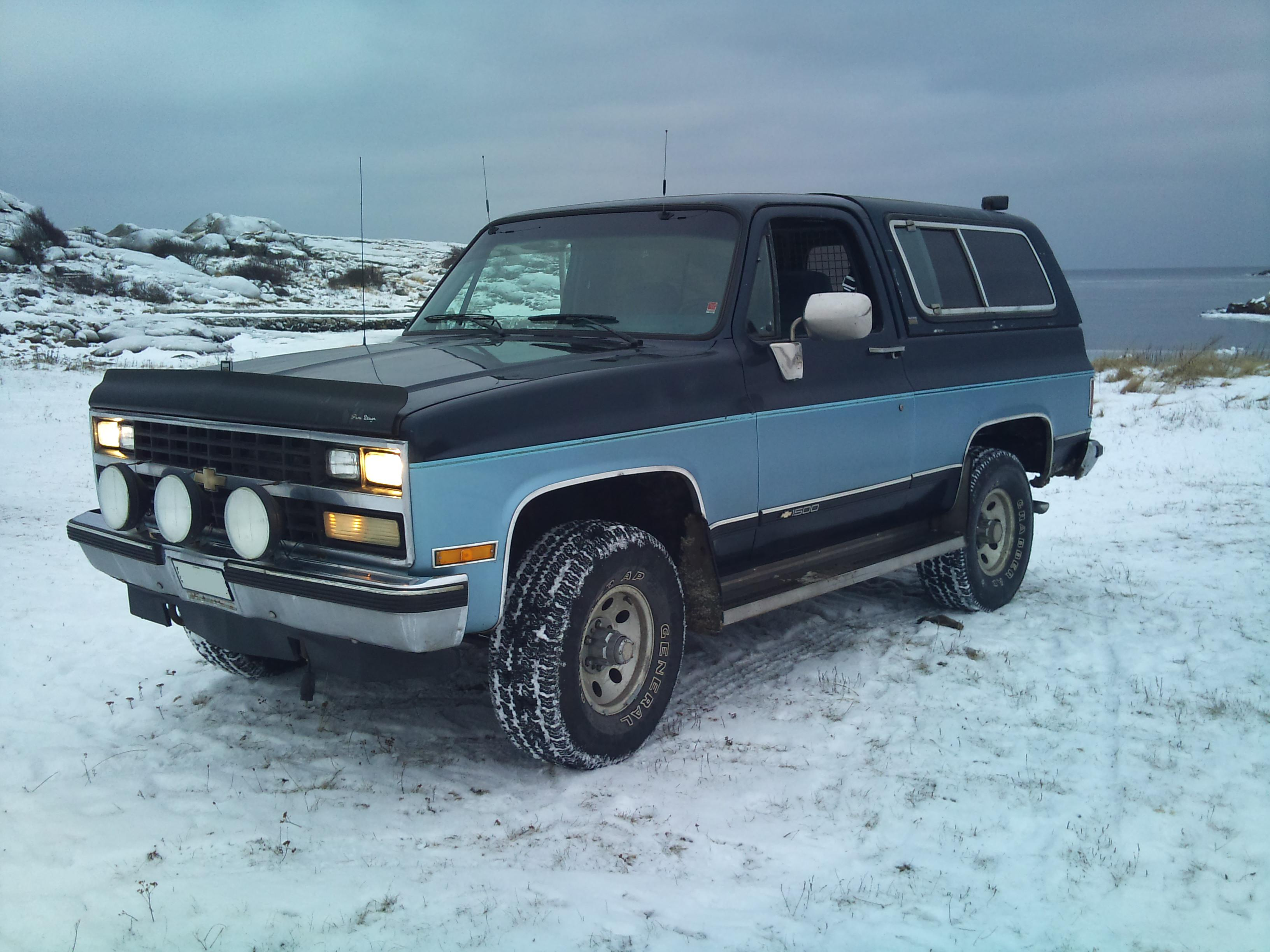 Chevrolet Blazer 1500 Silverado 6,2 Diesel